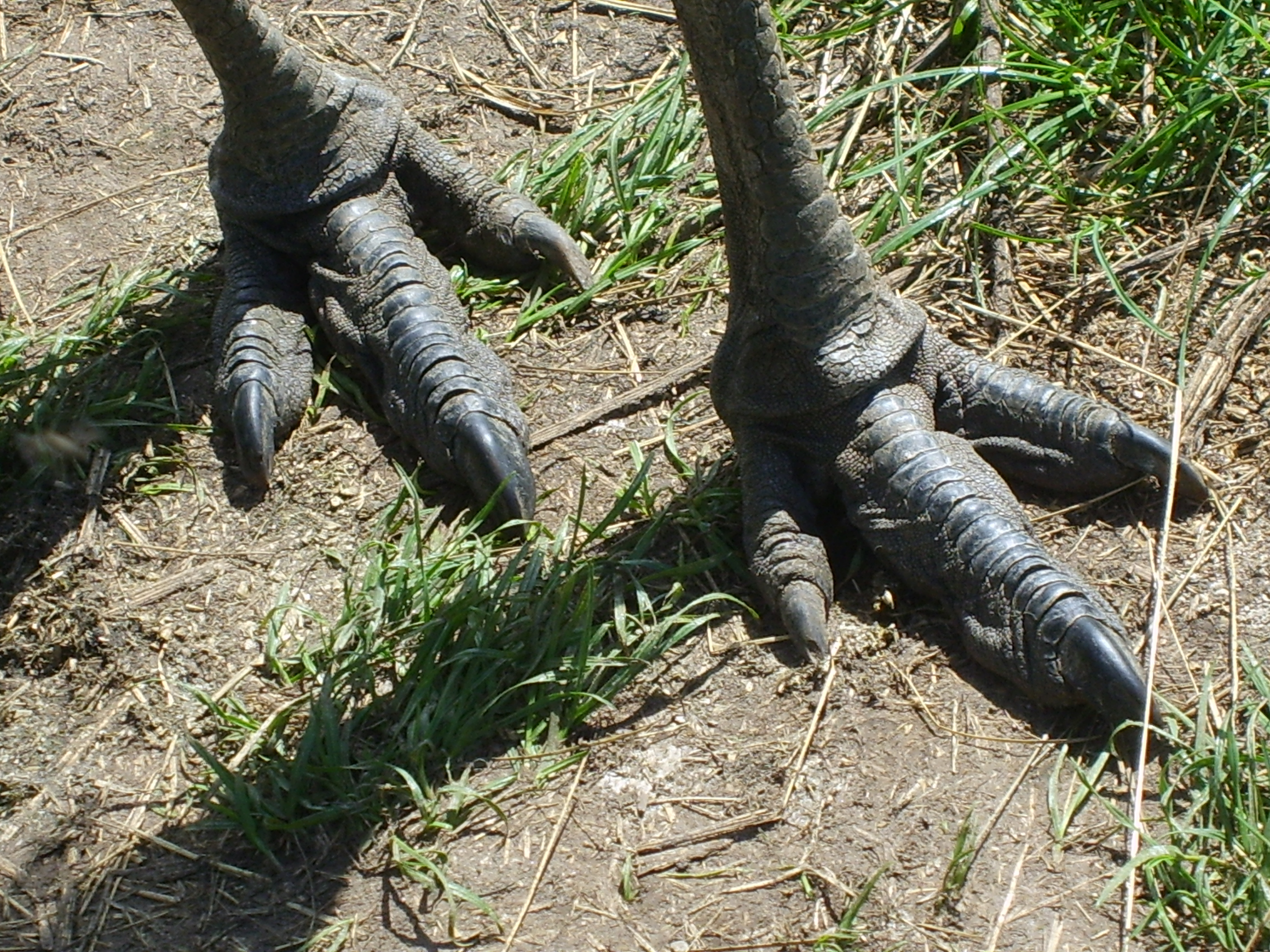 An Emu's feet showing three toes on each foot. Odsherred Zoo in Denmark.